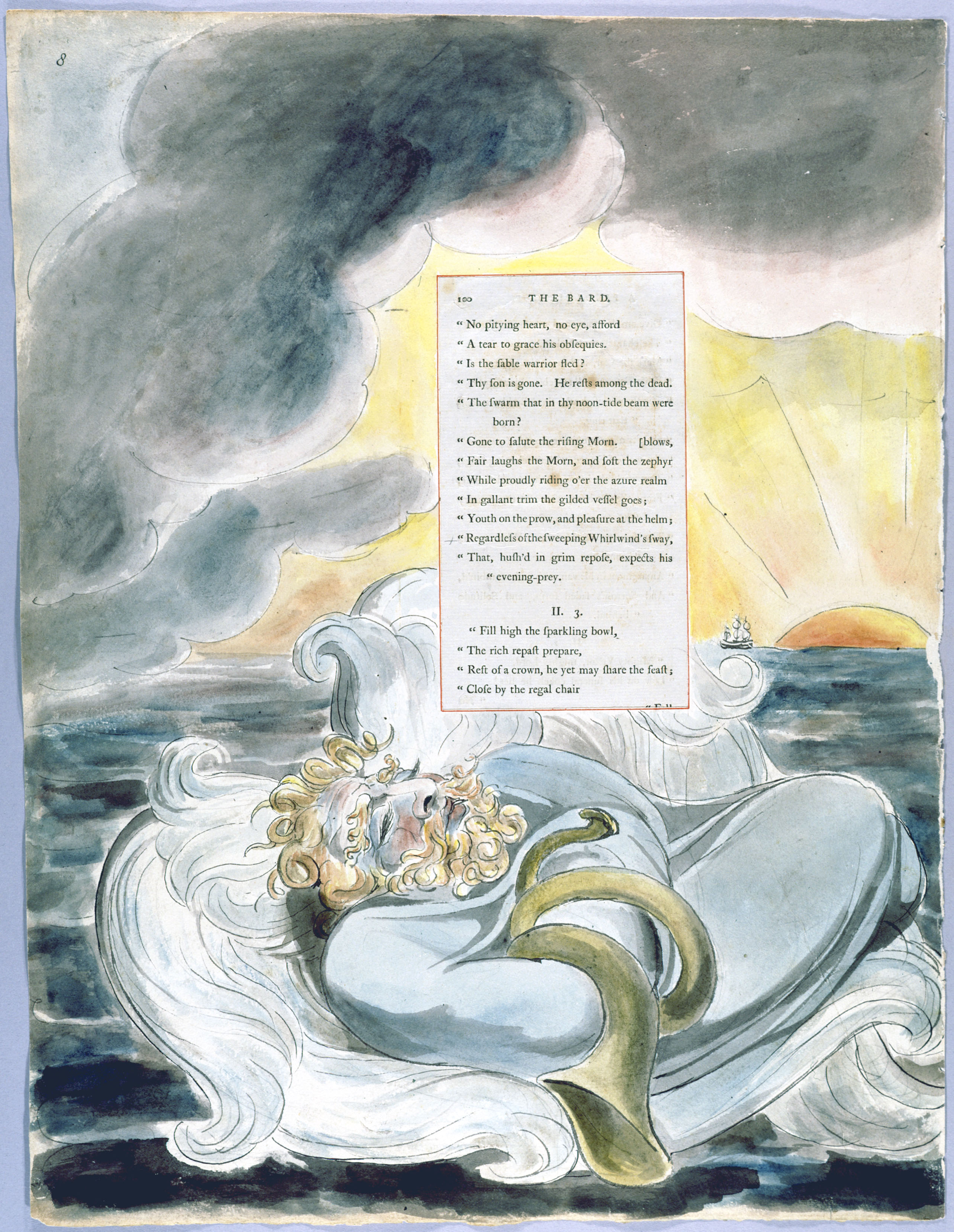 William Blake - The Poems of Thomas Gray, Design 60 The Bard 08